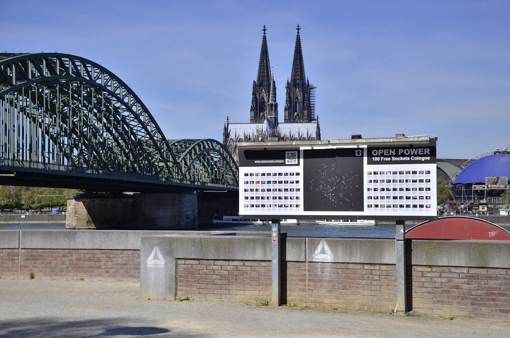 A map of Cologne fixed with 100 locations of available, functional electrical sockets the artist Andrey Ustinov found all over the city. He incorporated the map in an information board which was installed at the location where the very first socket was found. That happens to be in a very central and highly frequented place. The map is also available online on a website specially created for the project, where each socket is highlighted through photos and many with detailed descriptions about their location and social context.